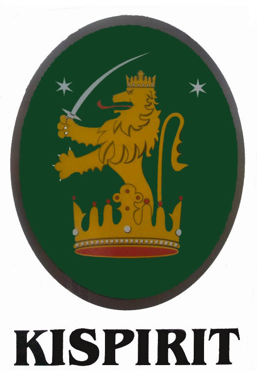 Coat of arms of Kispirit, Hungary